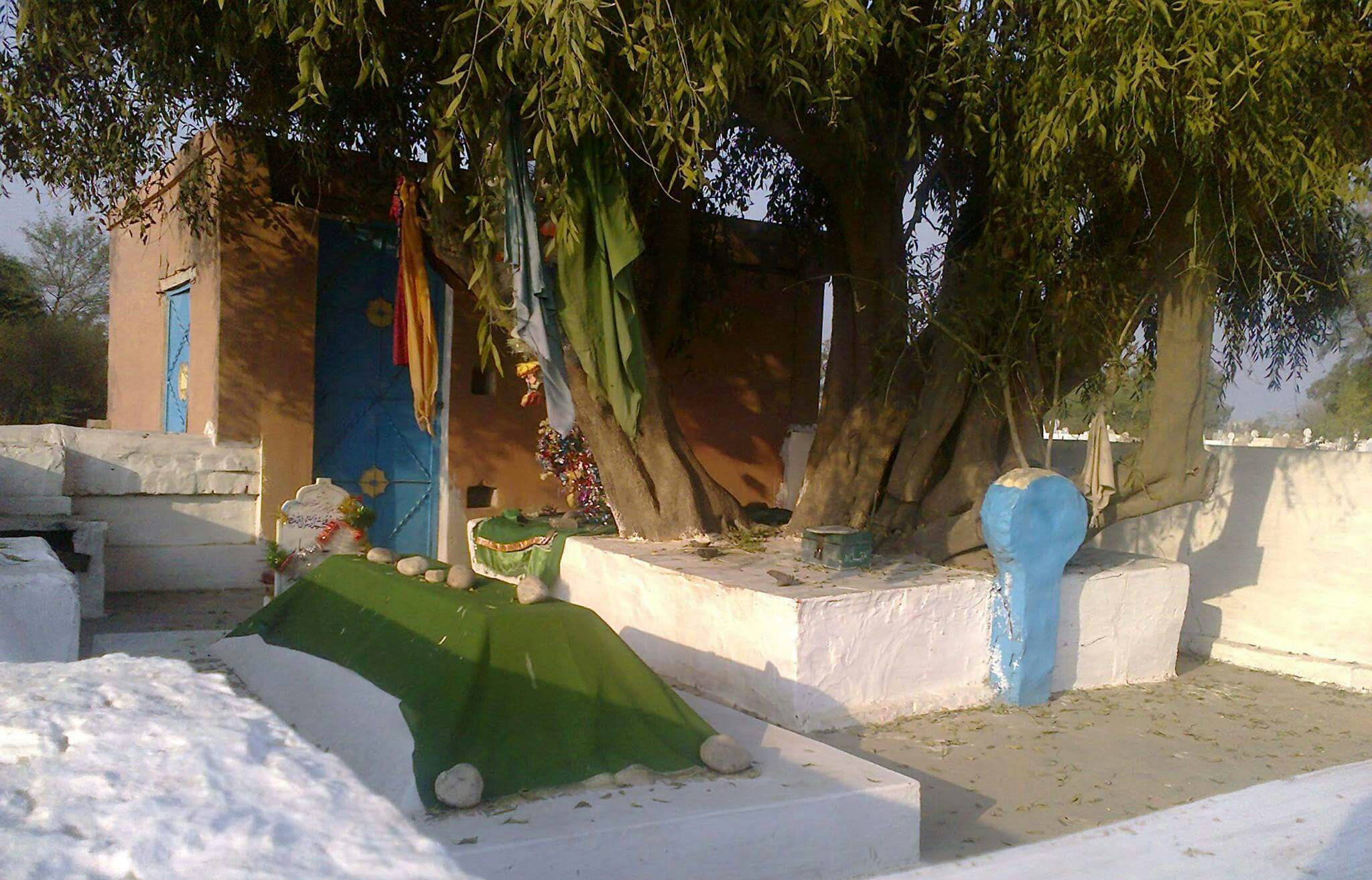 I also Uploaded this Photo on Botala Facebook Page & on website